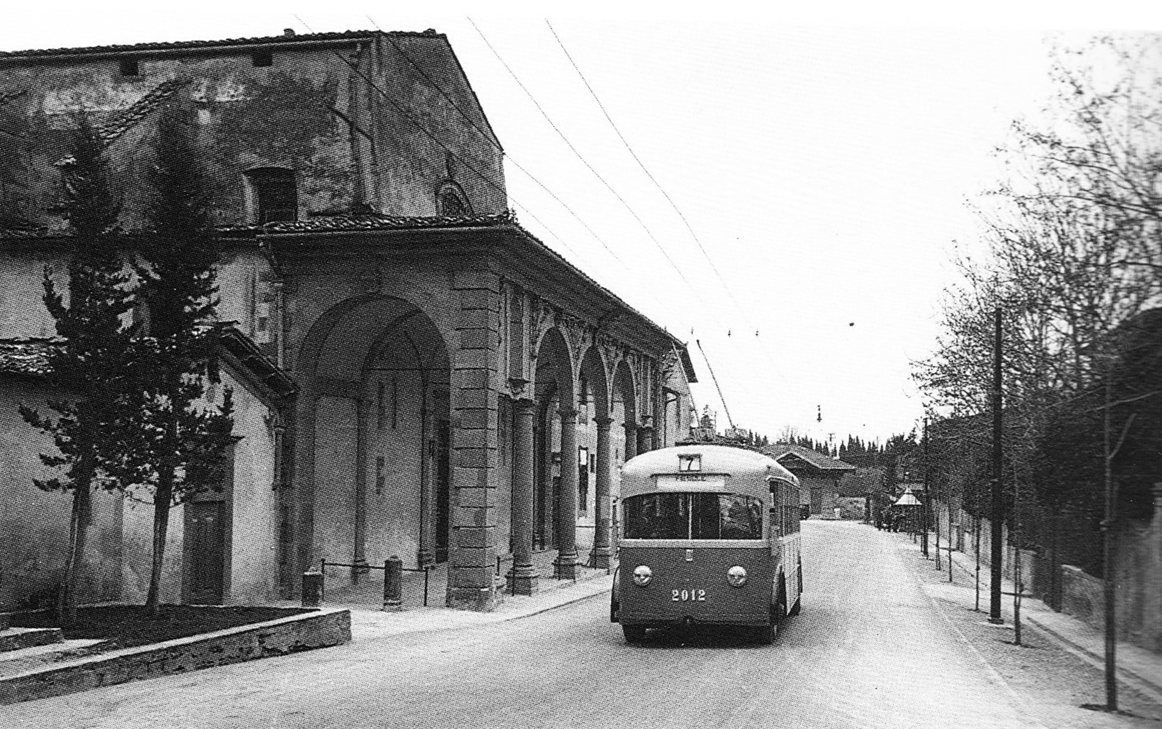 A trolleybus travelling from Florence (Firenze) to Fiesole, passing the San Domenico Convent. The Firenze–Fiesole trolleybus line opened in 1938, and it remained in operation until the closure of the last lines of the trolleybus system, on 1 July 1973.